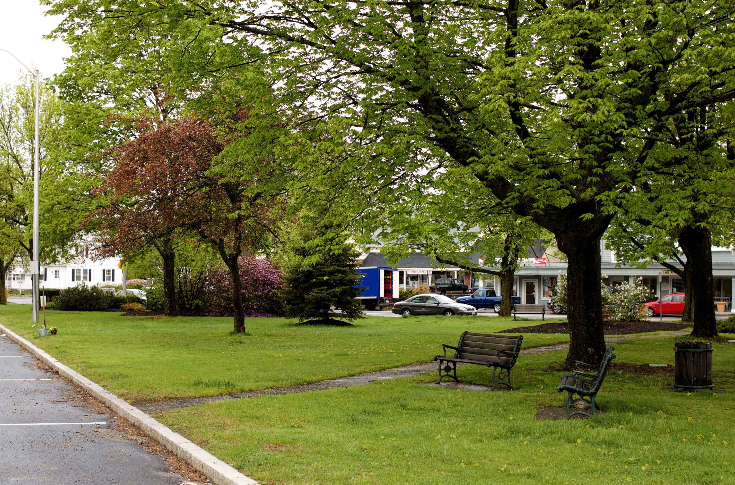 Littleton Common in Littleton, Massachusetts.